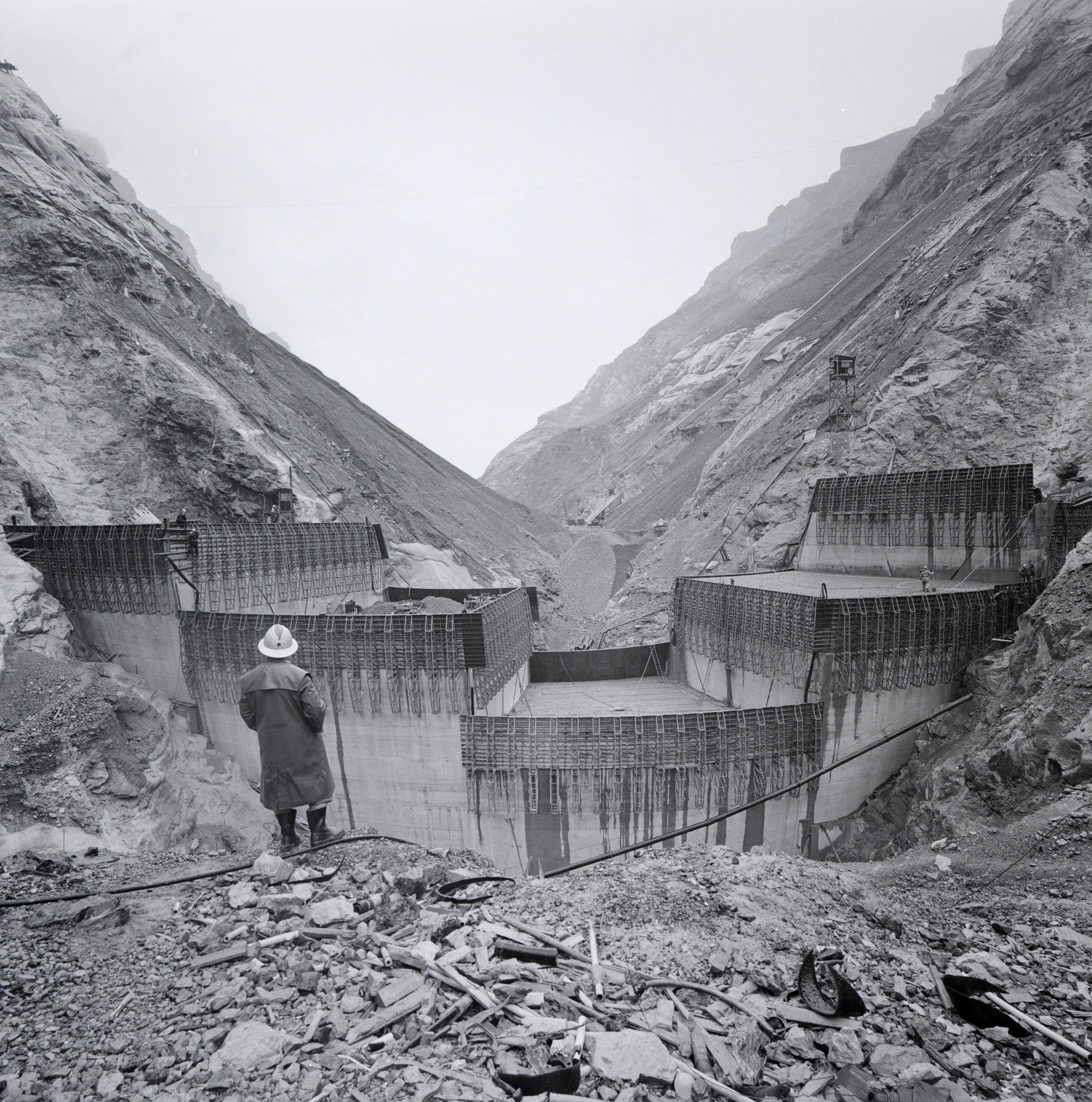 The arch dam at Limmern under construction, 1960